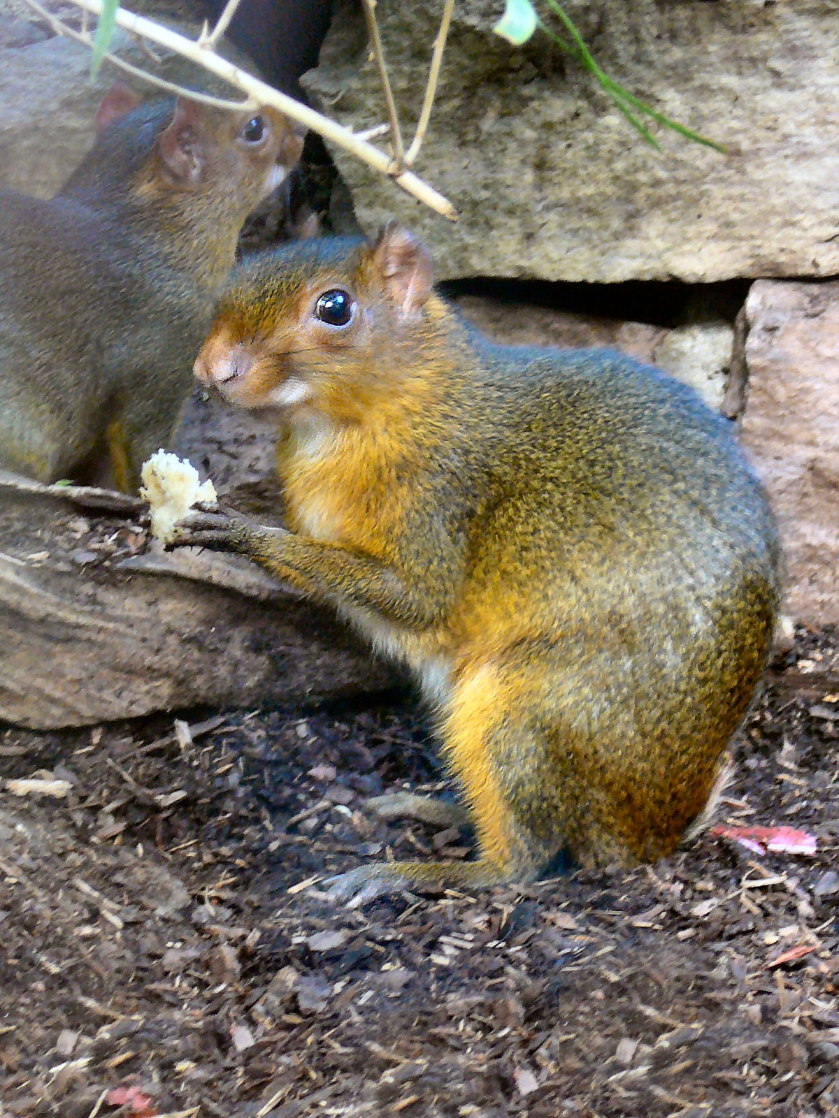 Myoprocta pratti (acouchi, Green Acouchi). Wilhelma zoo - Stuttgart - Germany